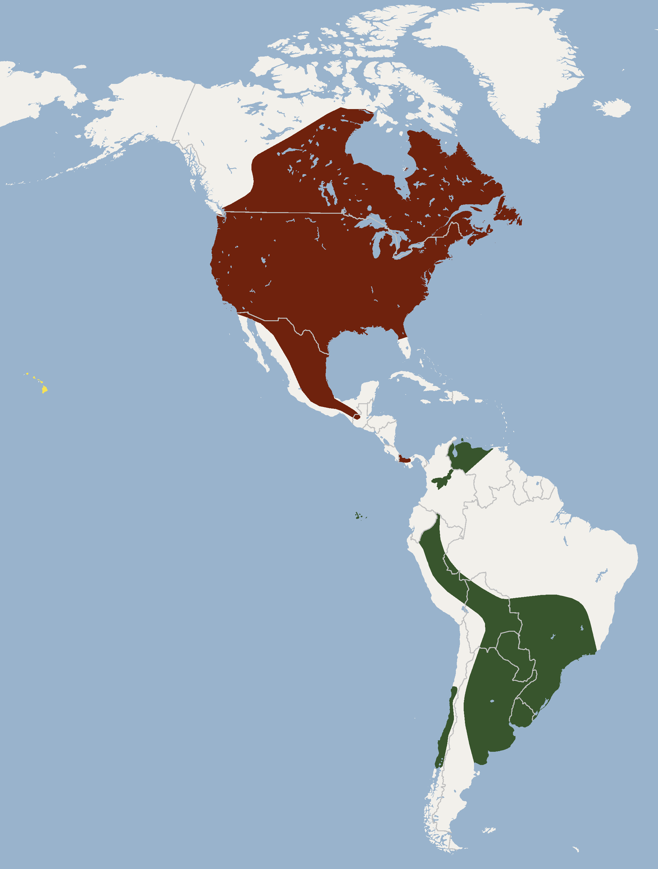 Geographical distribution of Lasiurus cinereus according to IUCNRedList, Gardner, 2008, Reid, 2008; Brown - L. c. cinereus, green - L. c. villosissimus, yellow - L. c. semotus